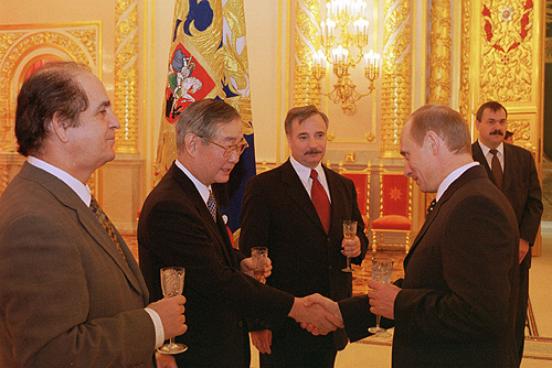 THE KREMLIN, MOSCOW. President Putin with Ambassador of Cyprus Andreas Georgiadis (right), Ambassador of Japan Issey Nomura (centre) and Ambassador of Hungary Ferenc Kontra.